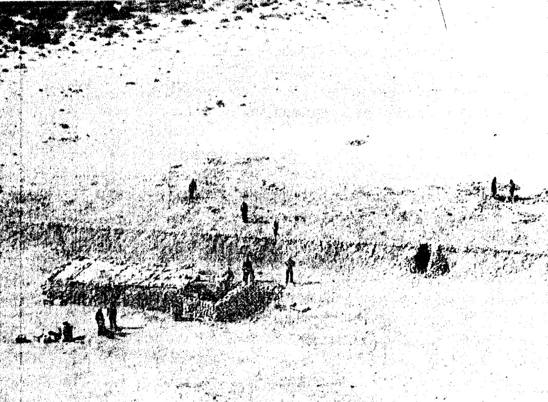 A portion of the Western Sahara ceinture near Bu-Craâ